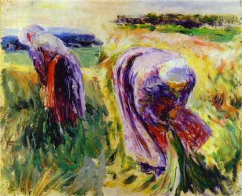 картина Борисова-Мусатова Жницы